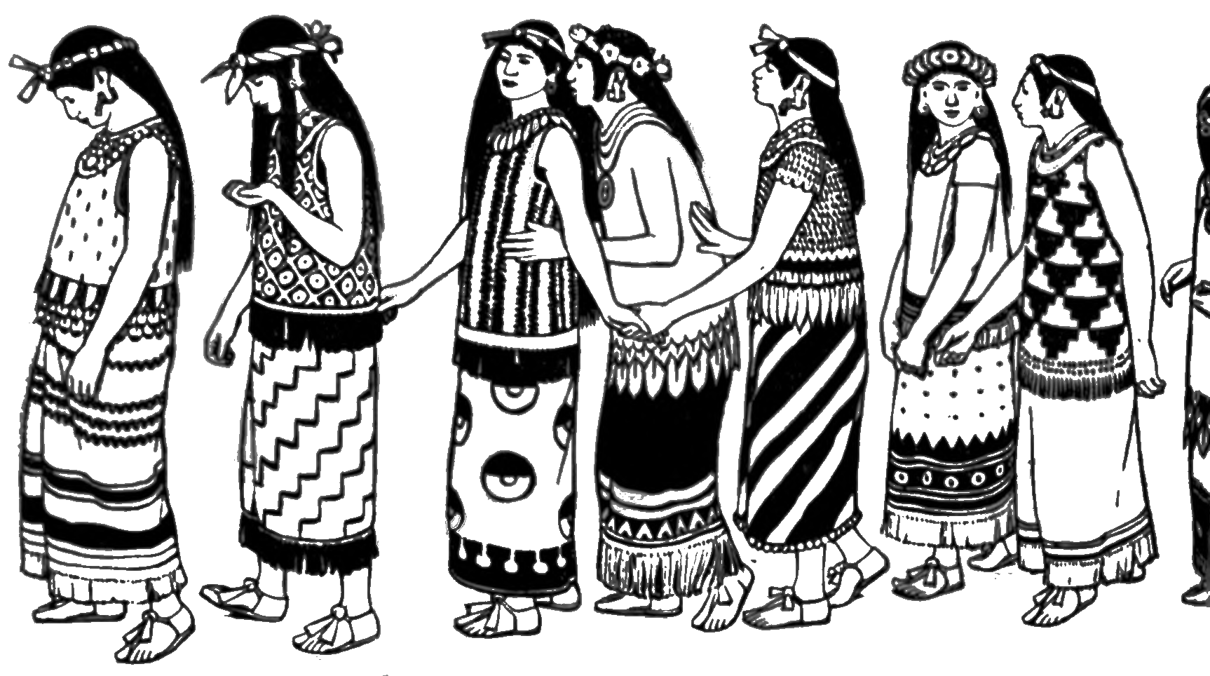 Women gifted to Cortés by the Cacique of Cempolla